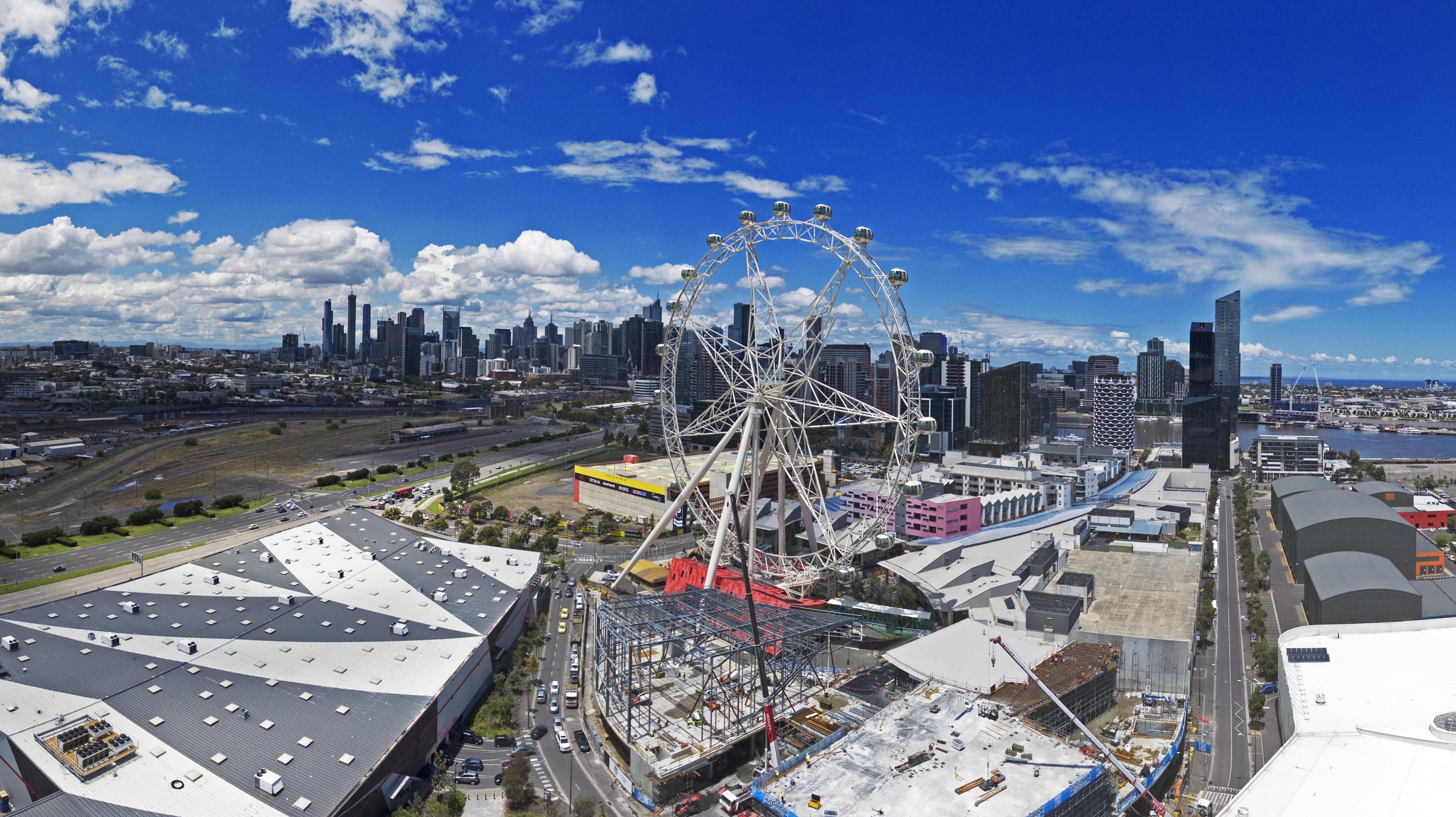 Aerial perspective of the Melbourne Star Observation Wheel. Taken from an altitude of 50m.